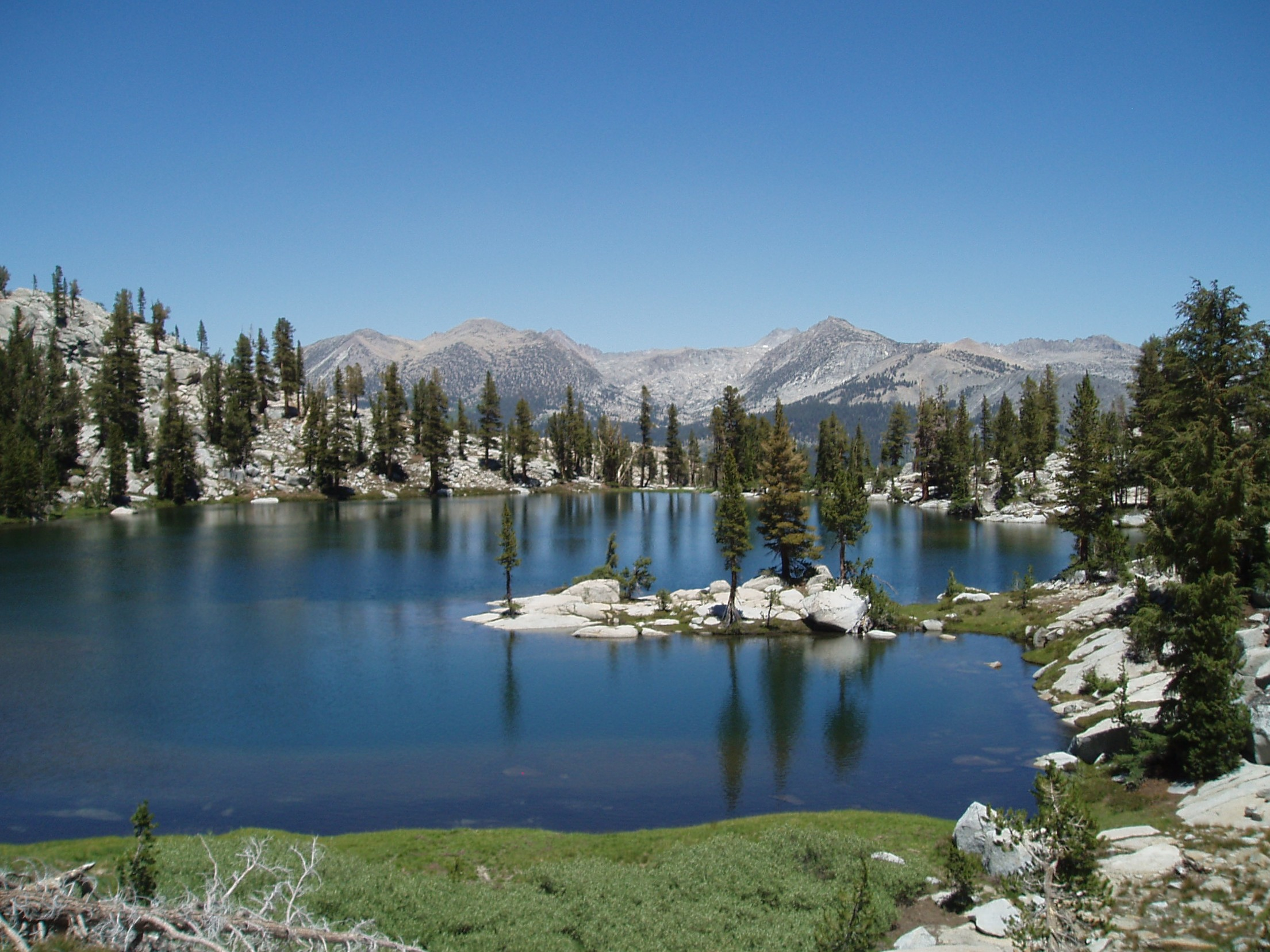 East of Ward Mountain, LeConte Divide, John Muir Wilderness.